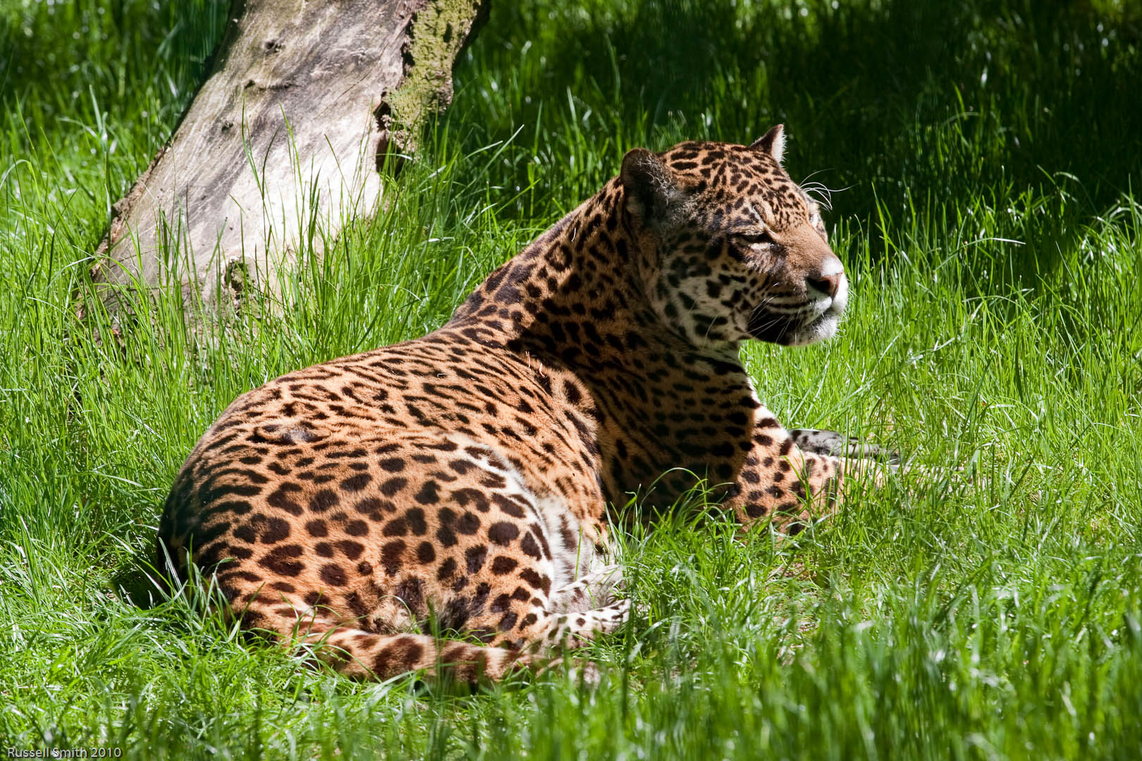 A Jaguar at Amazona Zoo, Cromer, Norfolk, England.